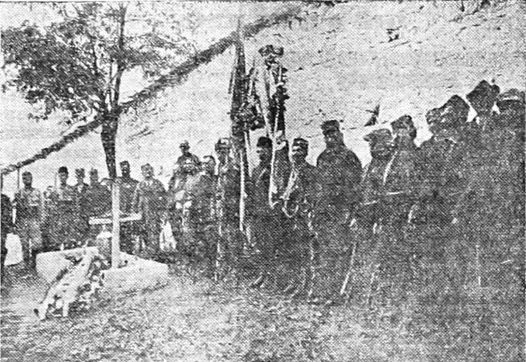 Babunski's Chetniks by the grave. News article from 1924.